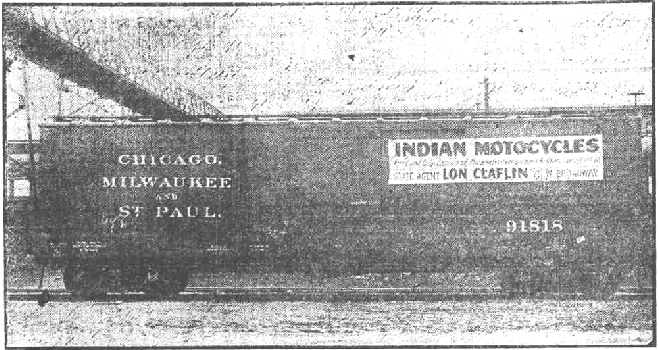 First carload of Indian motorcycles brought into Utah. April 1913. Cropped and lightened using GIMP by the uploader.